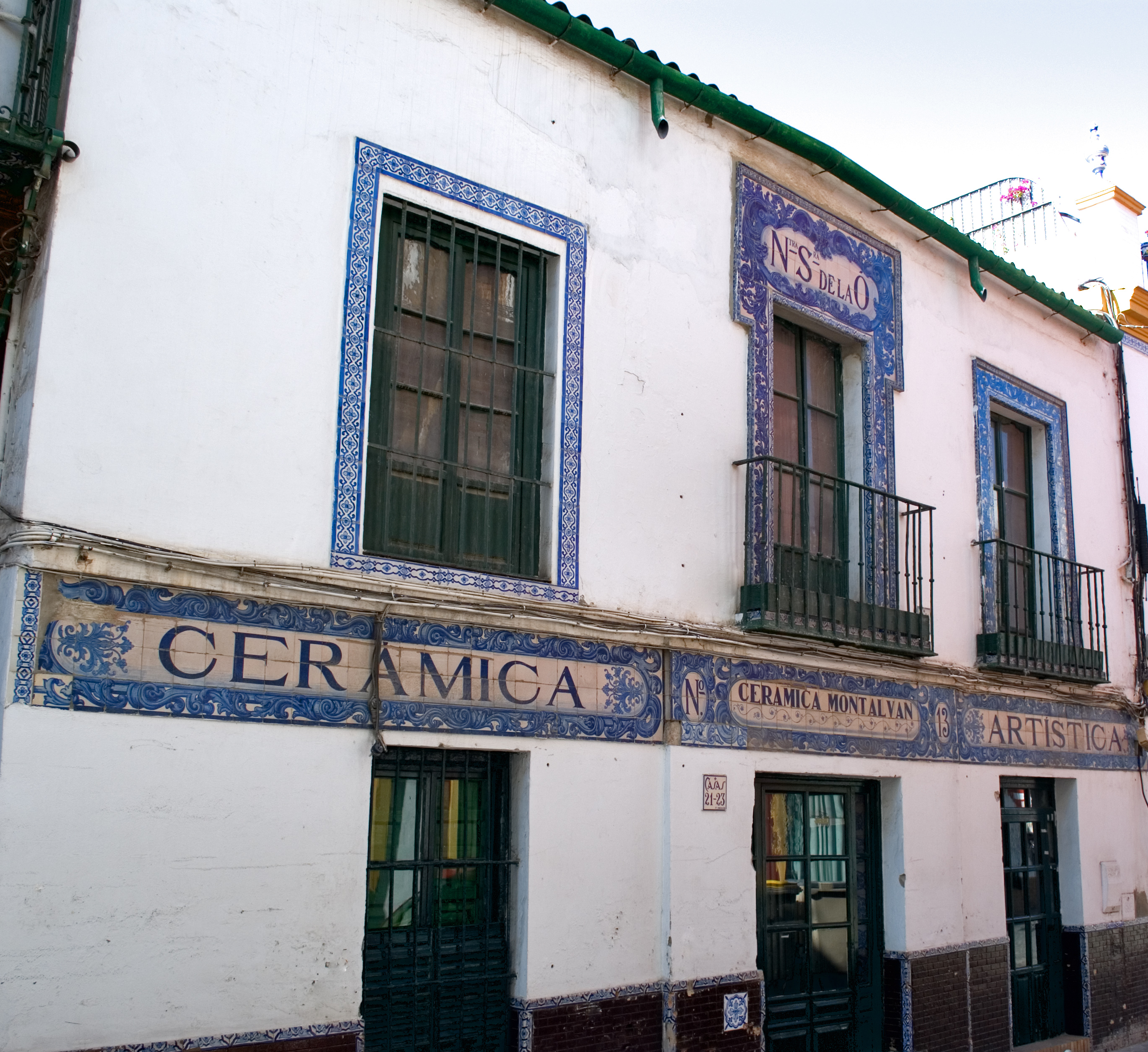 Ceramic of Triana, Seville